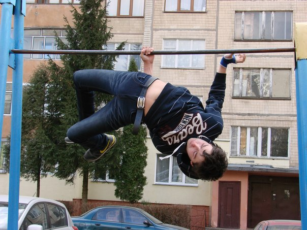 Young man practicing gimbarr